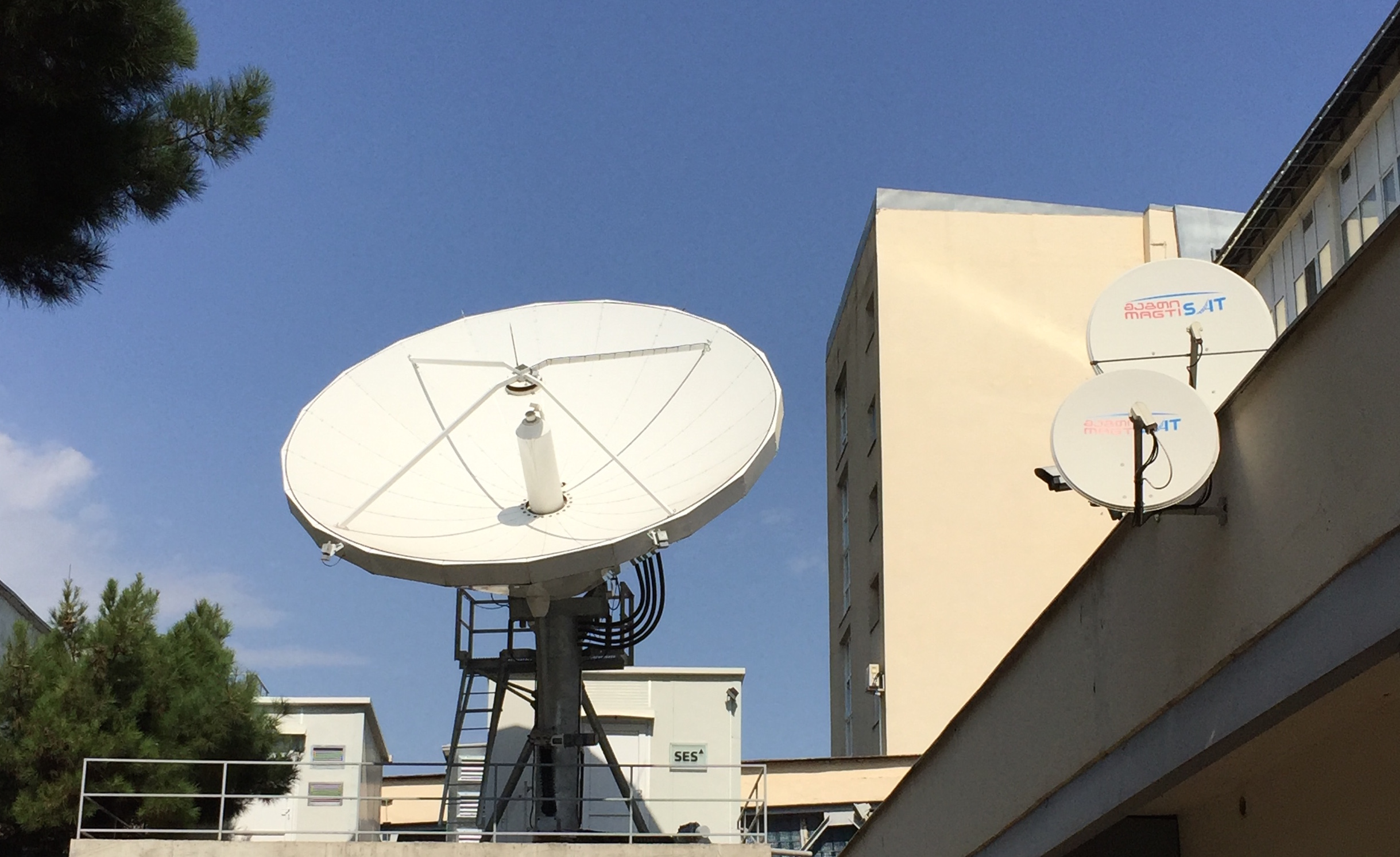 Magtisat and Satellite connecting with Astra Satellite in the space